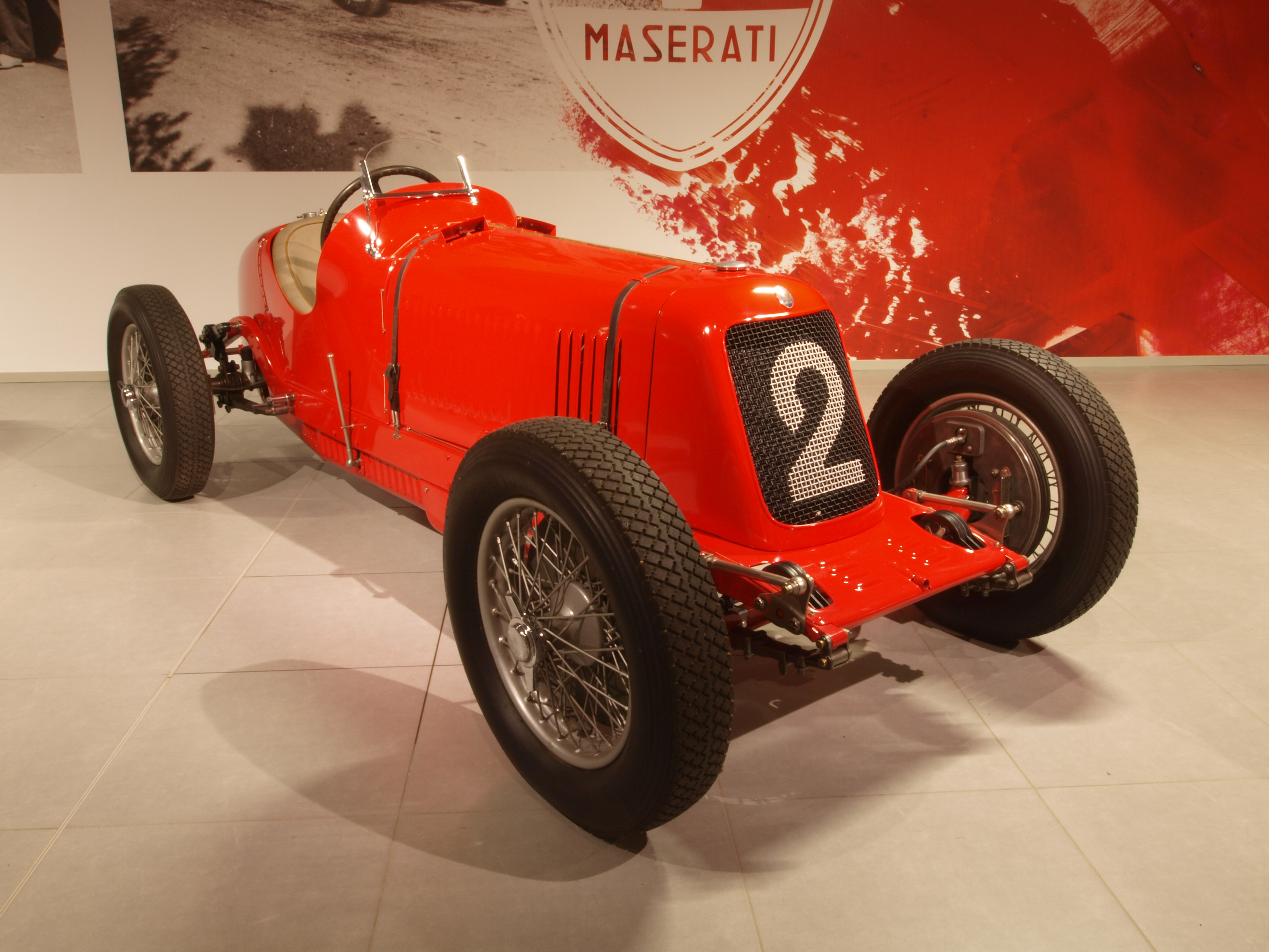 Photographed at the Louwman museum / Louwman Collection, The Netherlands.